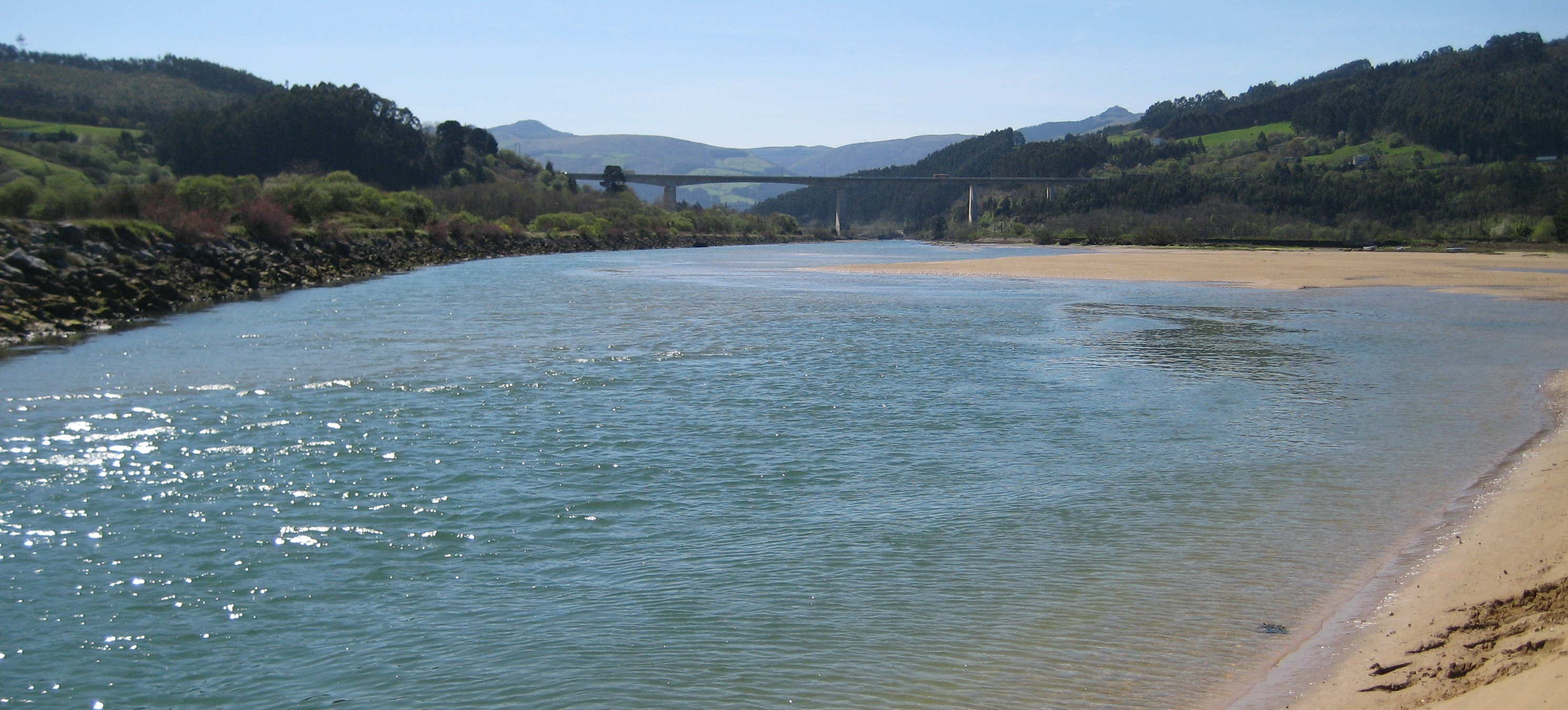 Agüera river at Oriñón beach, in Castro-Urdiales.